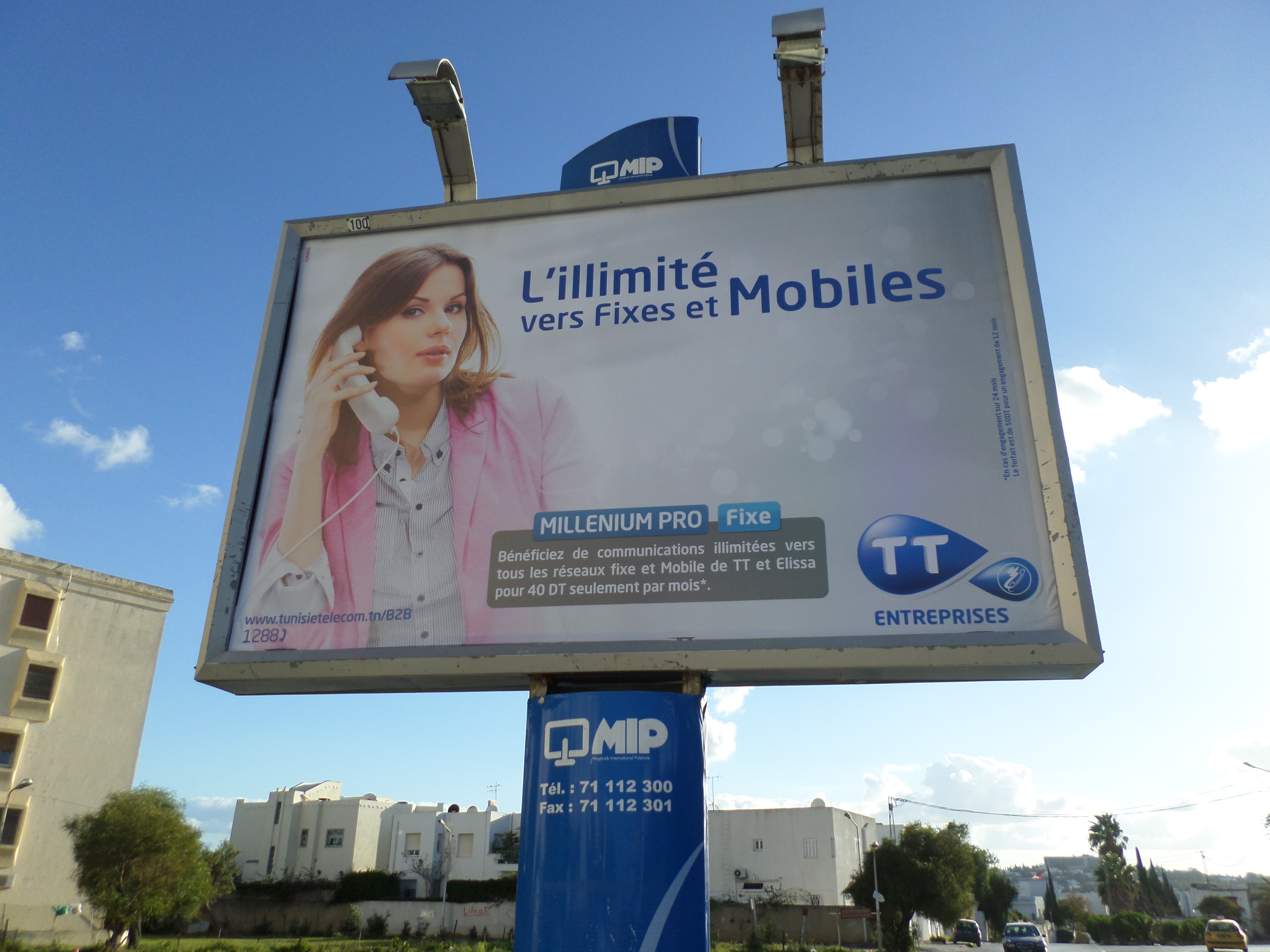 Tunisia Telecom ad billboard